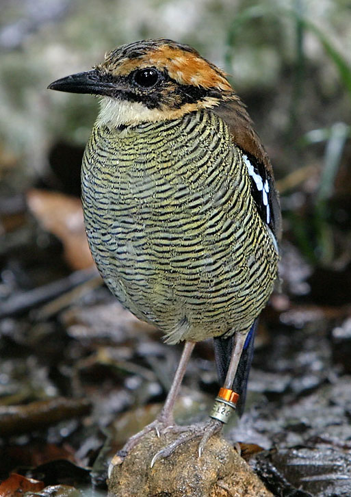 Pitta guajana - Banded Pitta, female